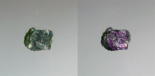 Alexandrite crystal in daylight (left) and fluorescent light (right). The specimen is from Brazil.